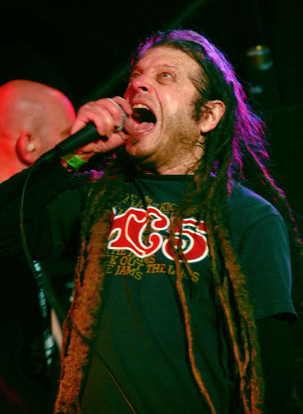 Keith Morris of the Circle Jerks in concert, December 1, 2006, Austin Texas. Photo by Steve Hopson. See more photos at: . Use of this photo requires attribution. Please credit, Steve Hopson Photography, .